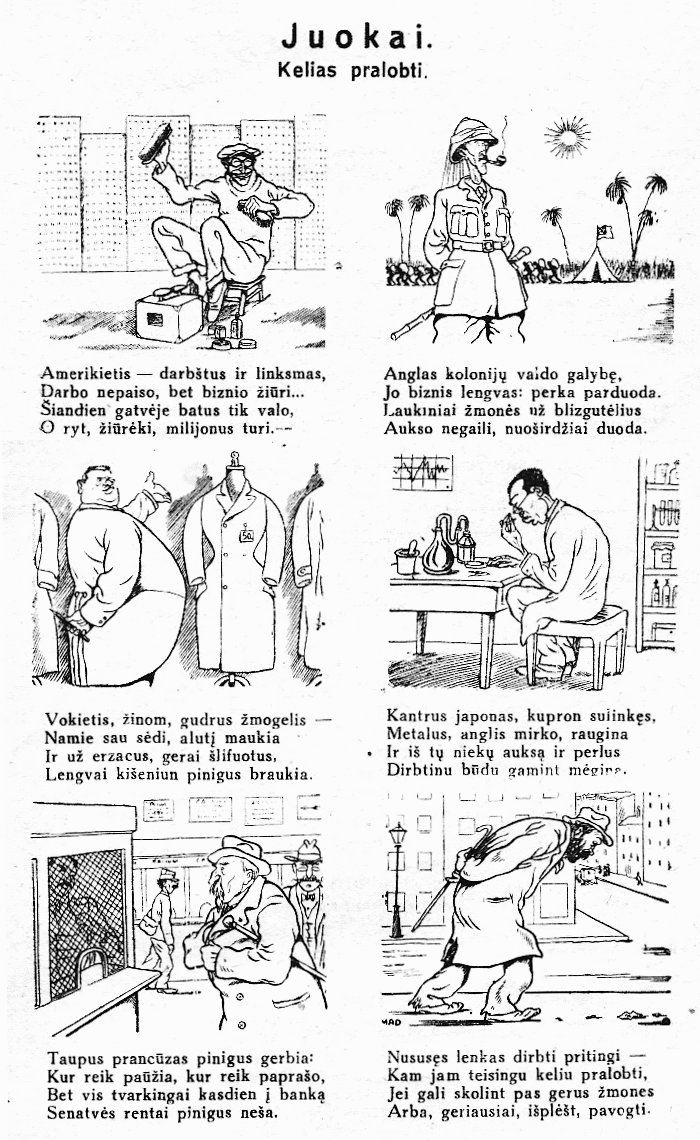 "The way to become rich" An anti-polish caricature.